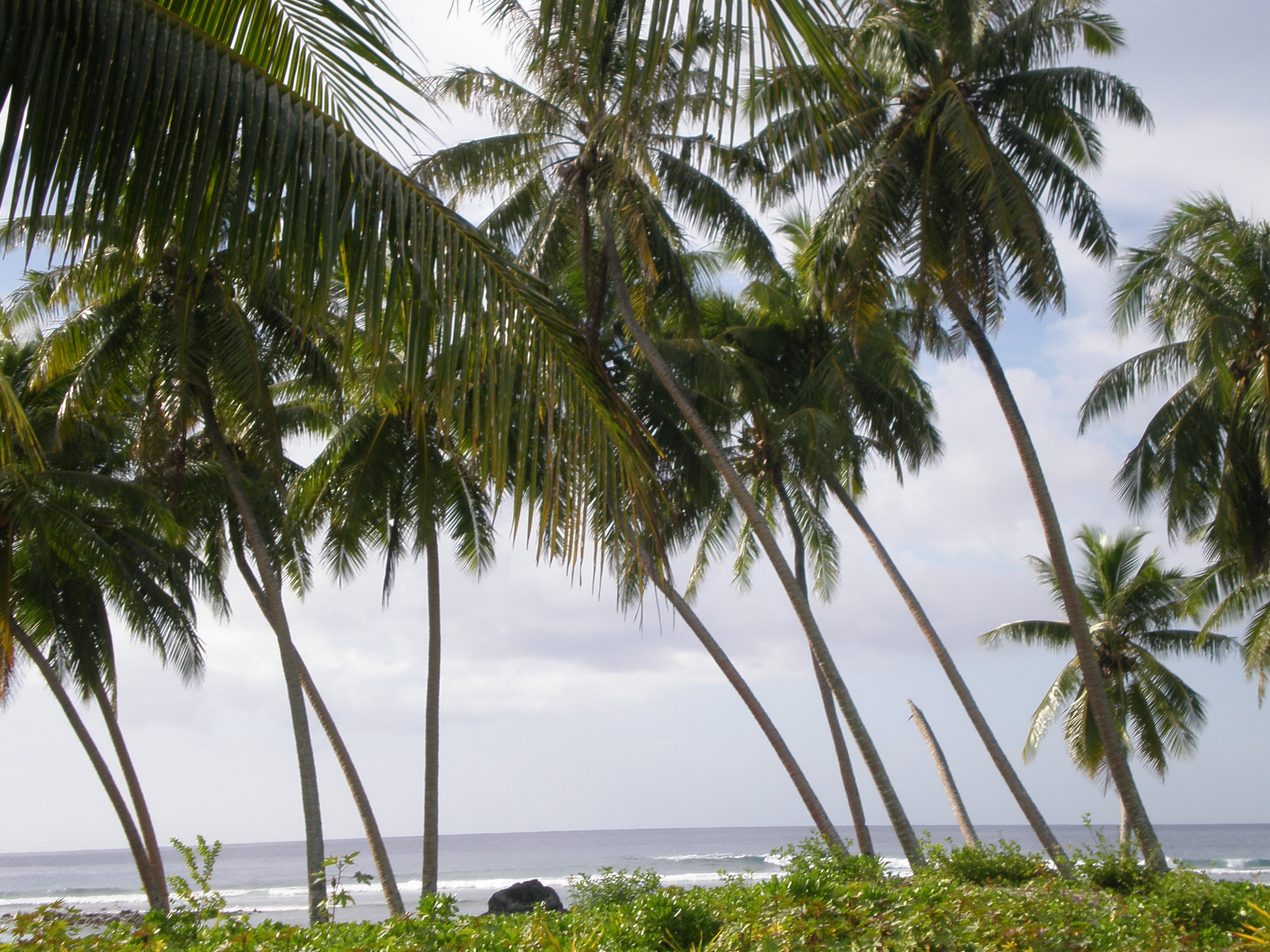 Coconut trees by the sea, Savaii island, Samoa